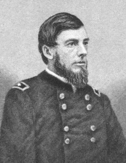 An Ohio General and politician named Benjamin Rush Cowen